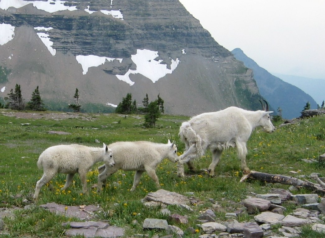 Rocky Mountain Goats (Oreamnos americanus), Waterton-Glacier International Peace Park.